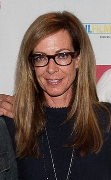 Sean-Cross, Tate-Taylor, Allison-Janney, producer, Scott-Cross